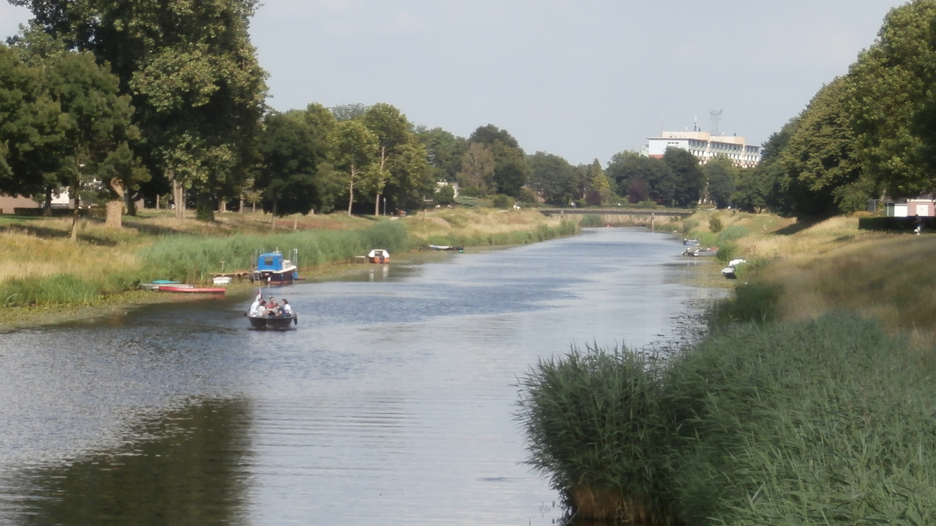 The river Aa to the east in 's-Hertogenbosch in 2020. The width of the canalized Aa is remarkable. It is actually wider than the parallel Zuid Wiilemsvaart.